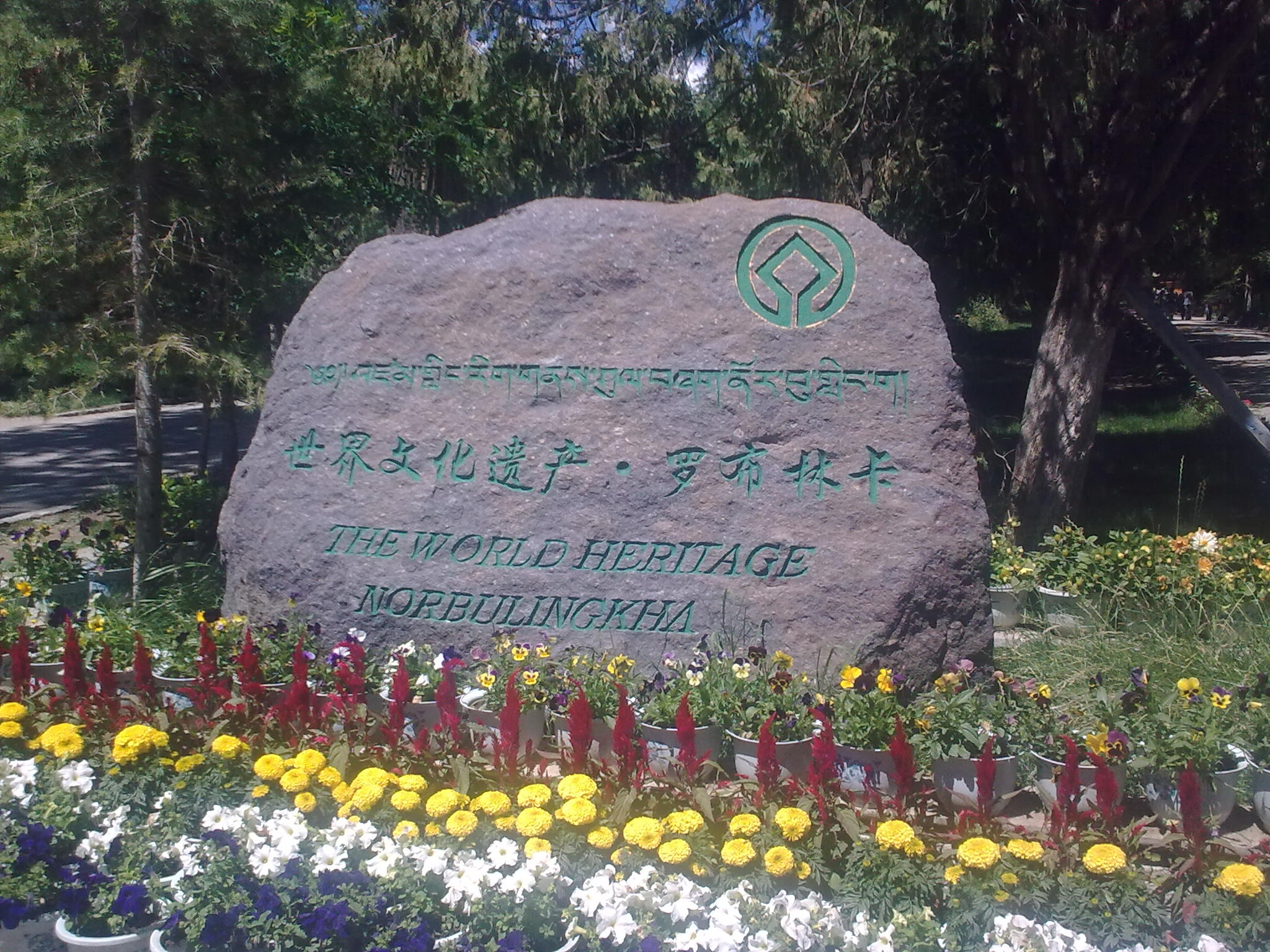 World Heritage Site sign of Norbulingkha, in Lhasa, Tibet.